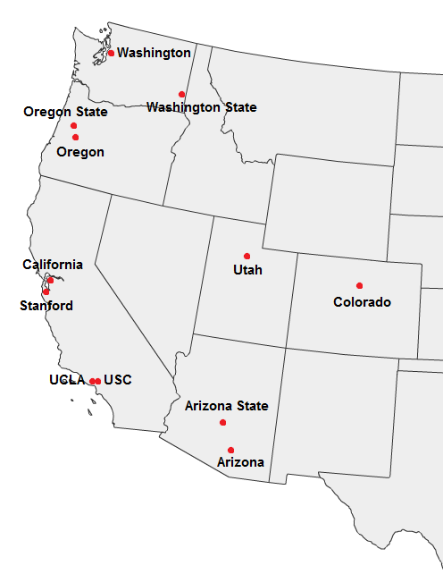 Updated Pac12 map detailing the locations of the schools